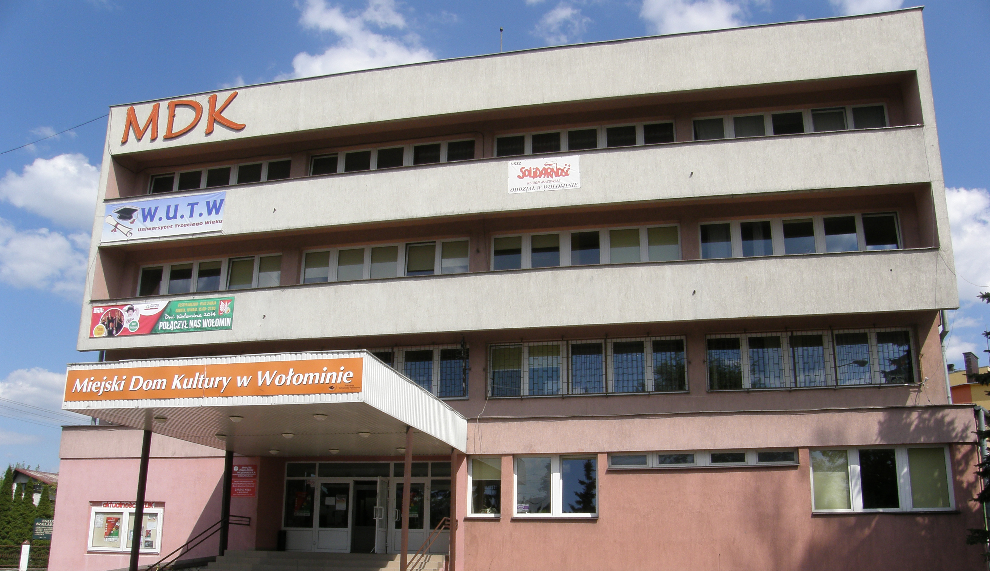 Municipal House of Culture in Wolomin